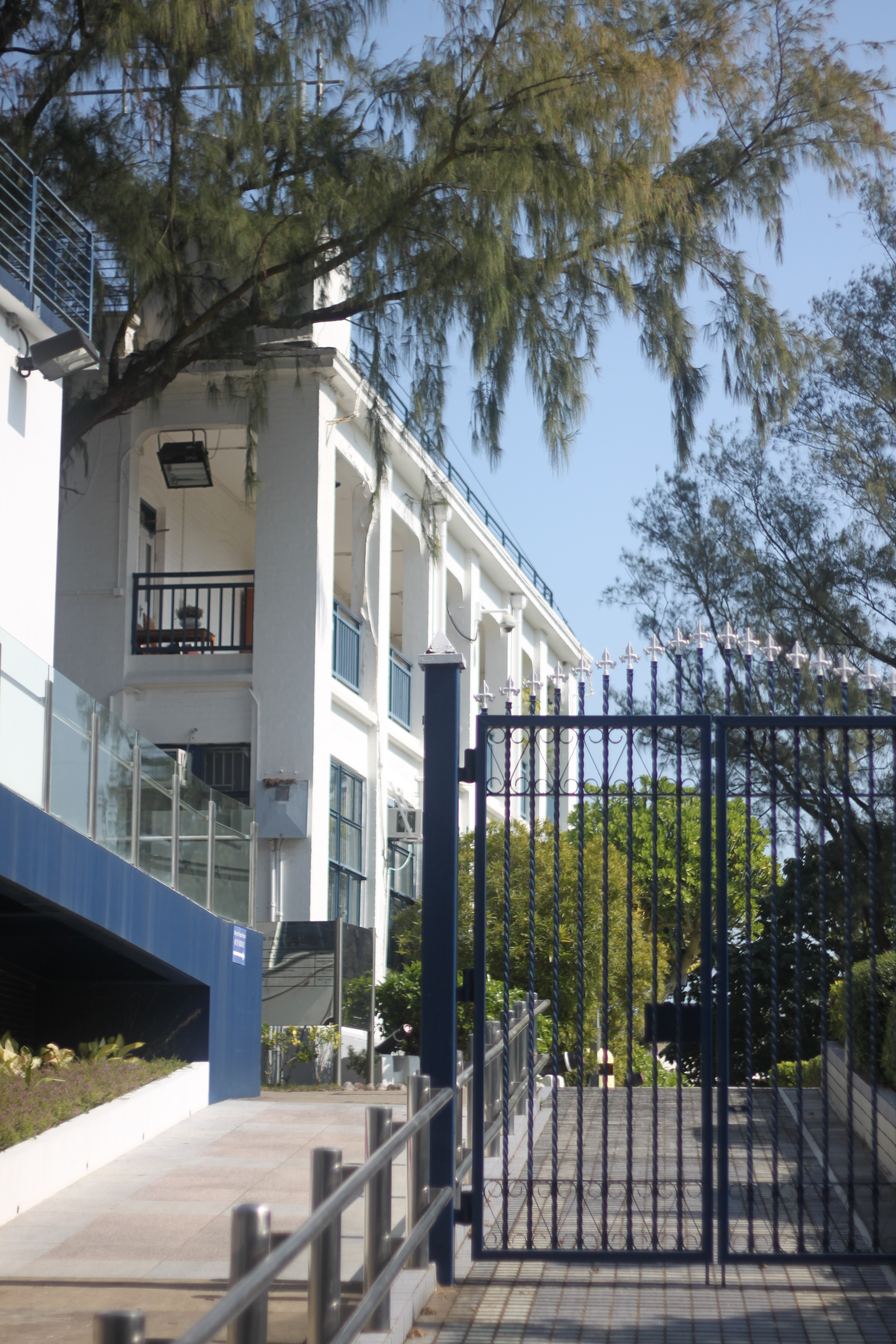 Cheung Chau Police Station